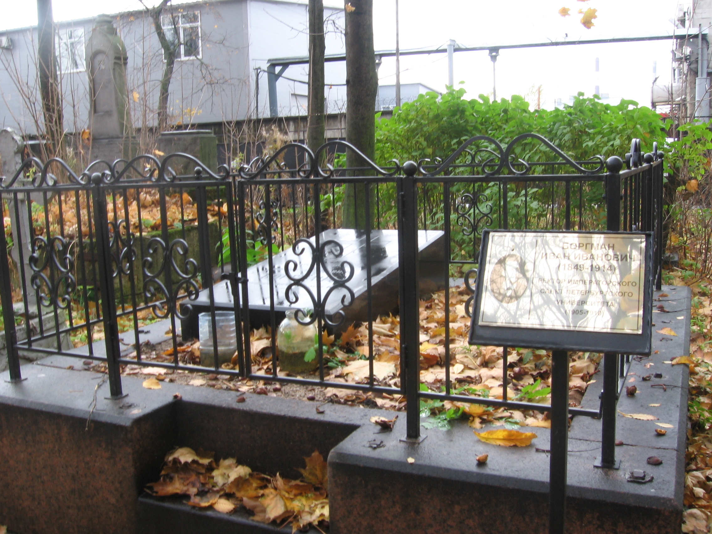 Grave of Ivan Borgman